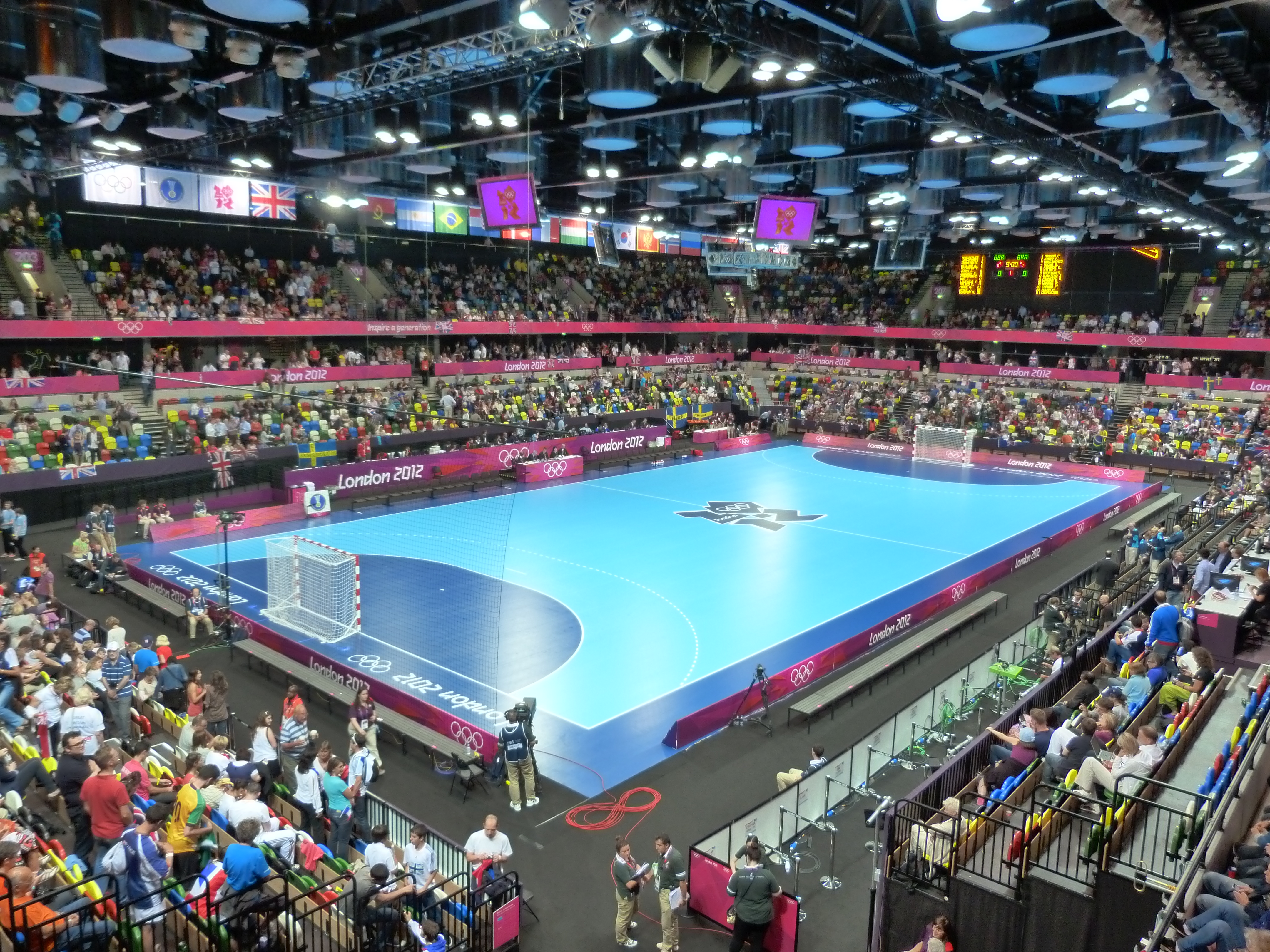 The Copper Box before a game between the Great Britain and Brazil national handball teams.